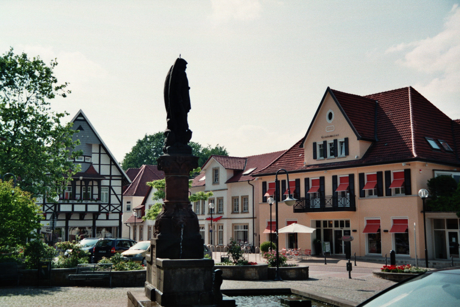 Market square of Mettingen, North Rhine-Westphalia, Germany.